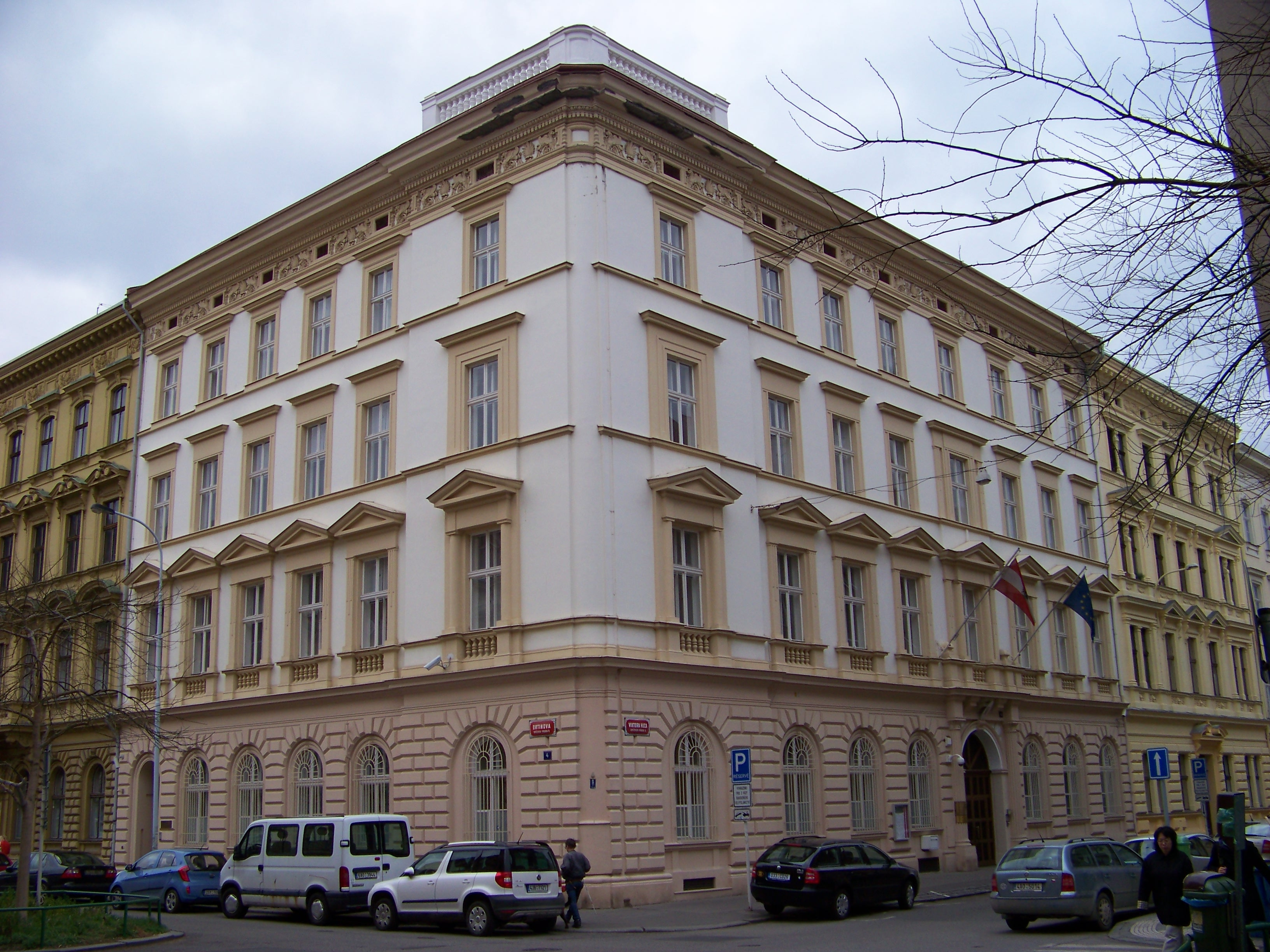 Prague-Smíchov, Czech Republic. Drtinova 500/4, Viktora Huga 500/10.